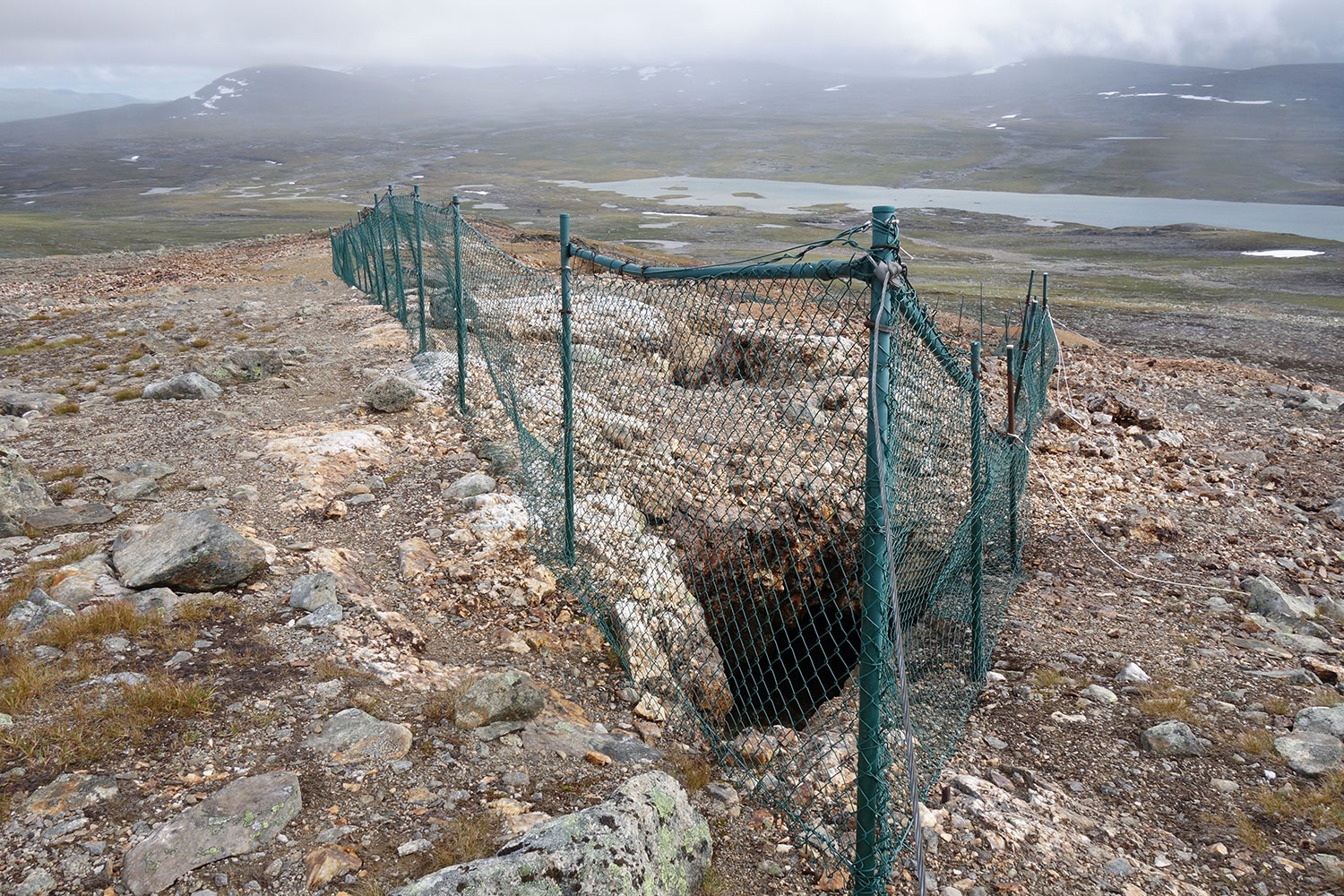 Fences around the old mine on Överberget, a part of Mount Nasafjäll where mining was initiated in the 17th century.